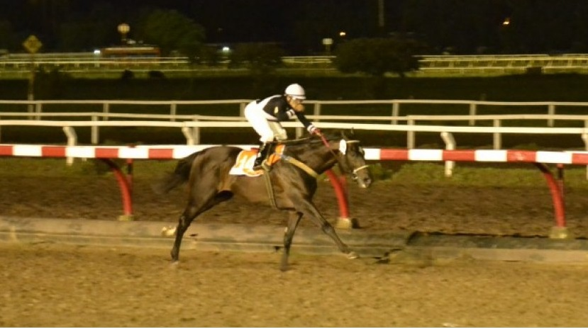 PSC Idolo Porteño